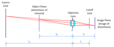 Schlieren photography